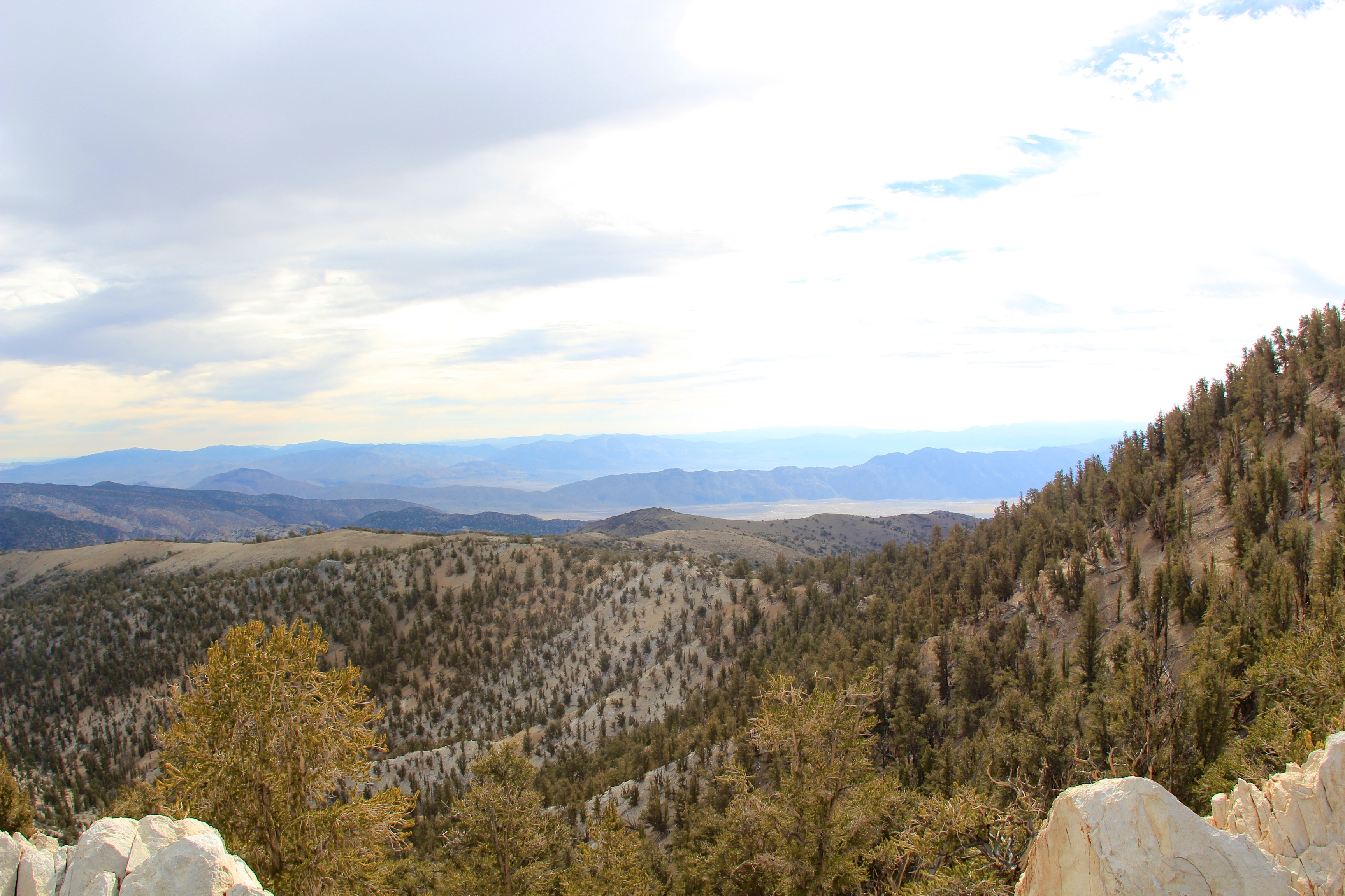 Pinus longaeva forest from overlook from Methuselah Trail @ Ancient Bristlecone Pine Forest, Inyo, California